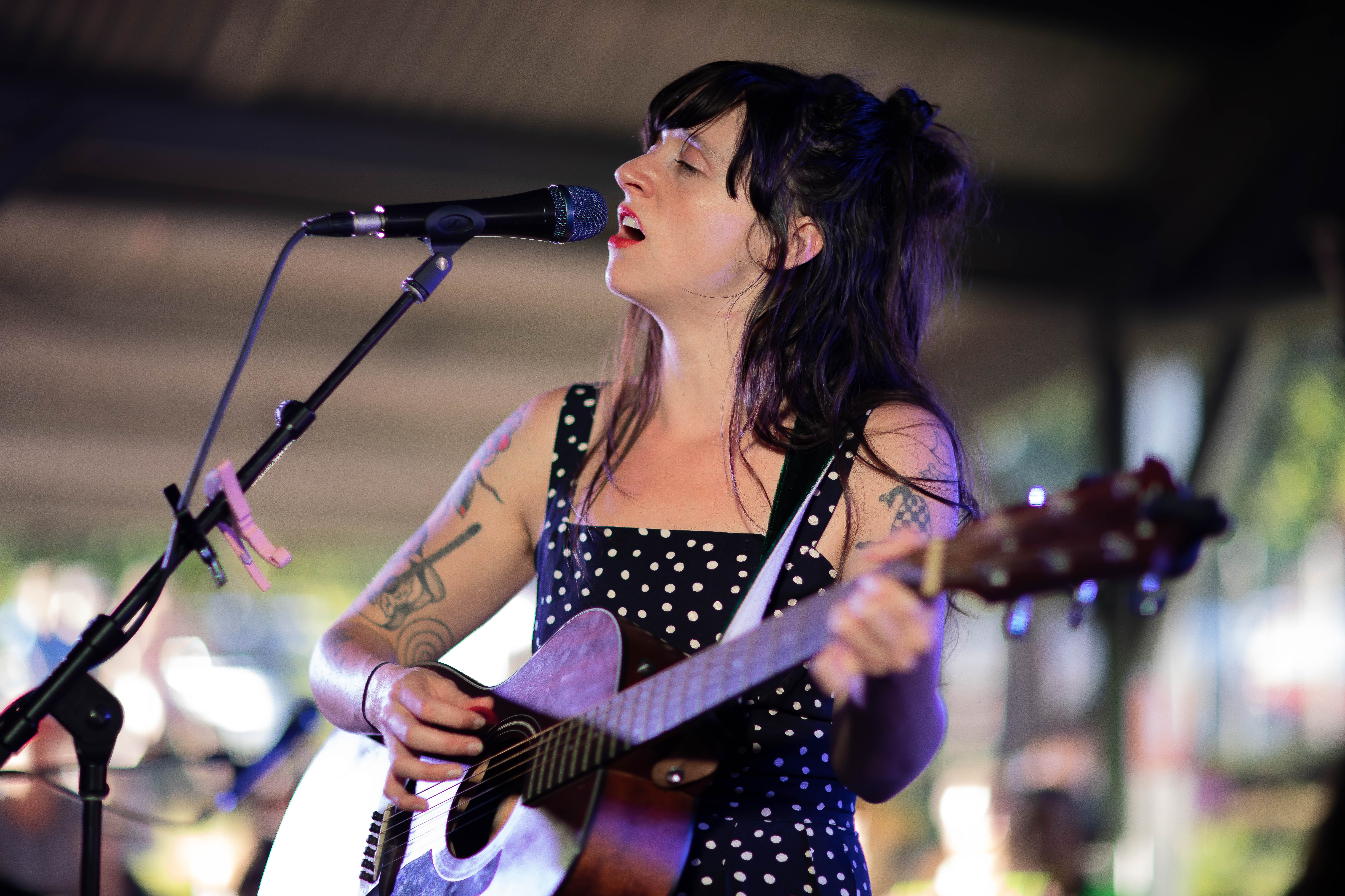 Musician Waxahatchee performing at Fairgrounds Festival, 2018.